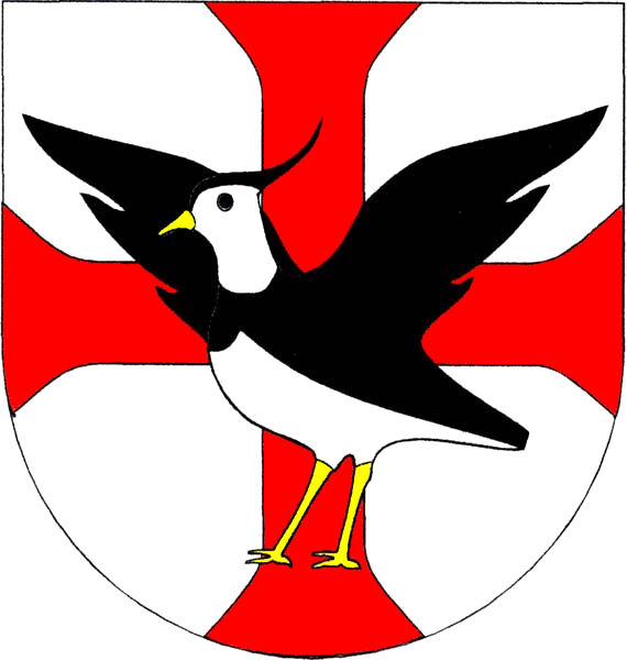 Municipal coat of arms of Čejkovice village, Hodonín District, Czech Republic.